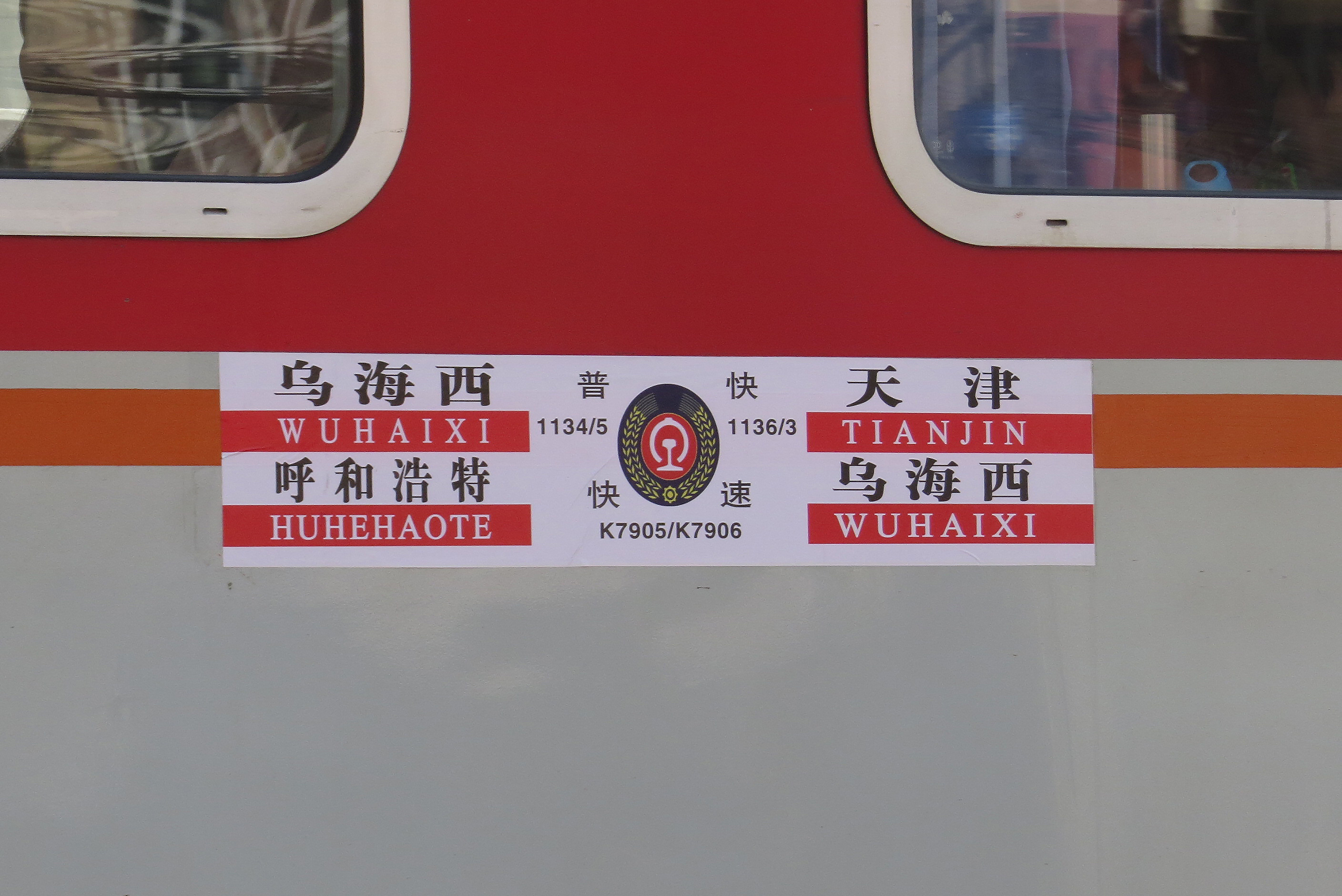 Wuhai's first train to Beijing.